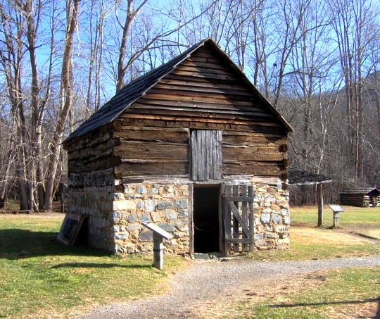 Applehouse at the Oconaluftee Mountain Farm Museum in the Great Smoky Mountains of North Carolina. The applehouse was built by Will Messer in the early 1900s, and originally stood in Messer's orchard at Cataloochee.